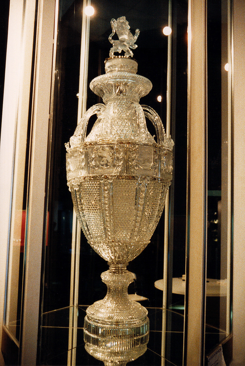 Seraing (Belgium), Val-Saint-Lambert crystal manufacture show-room - Monumental white crystal vase realized for the International Fair of Antwerp in 1894 (82 pieces - 200Kg - 2,20m).